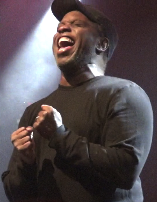 Corey Glover playing with Living Colour at the Million Man Mosh, January 4 2012